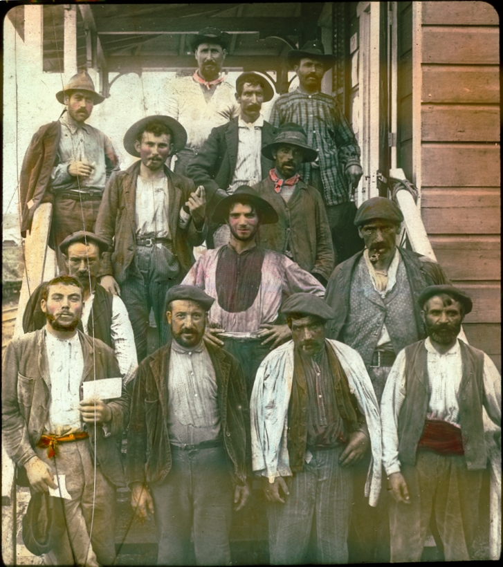 An unusual hand-tinted lantern slide of Spanish laborers on the Panama Canal, also noted as the Isthmian Canal. Early 1900s. From the William C. Gorgas lantern slide set of the Registry in Noteworthy Research in Pathology.